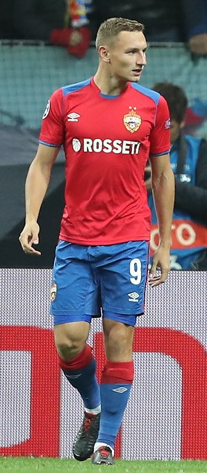 Fyodor Chalov